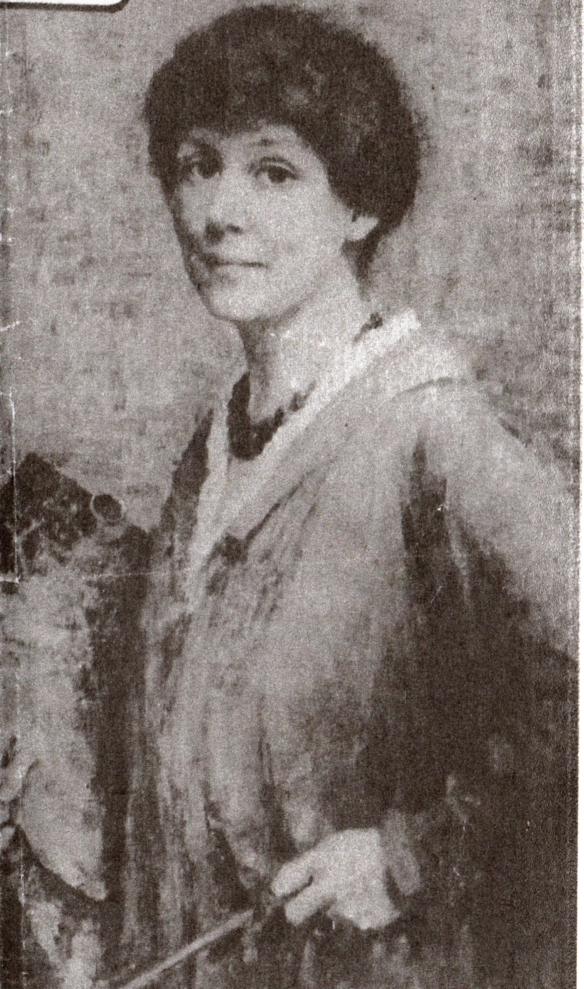 This is a scan of a photo in The Boston Herald newspaper on December 5, 1920 of an painting by Ethel Blanchard Collver entitled "Self Portrait".